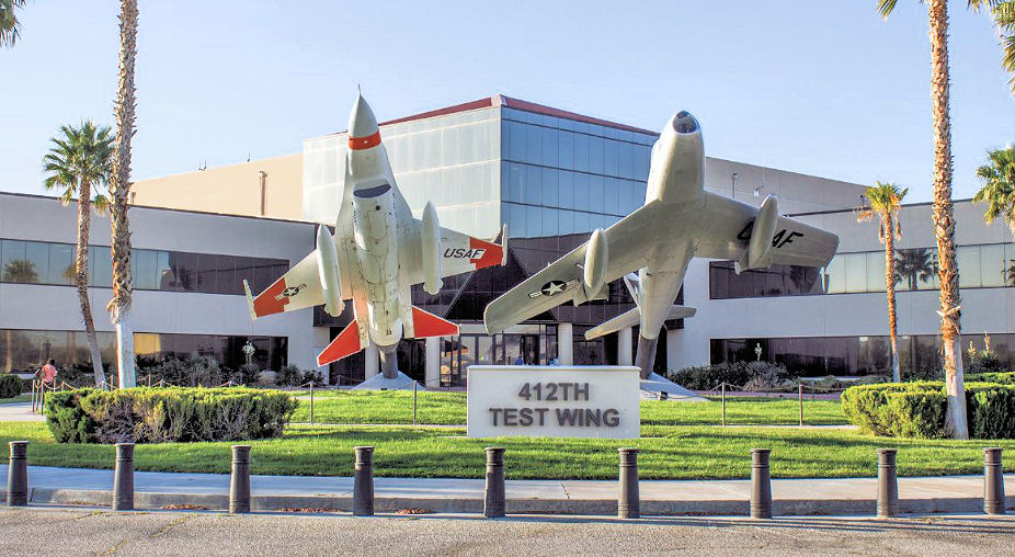 Headquarters, 412th Test Wing, Edwards AFB, California